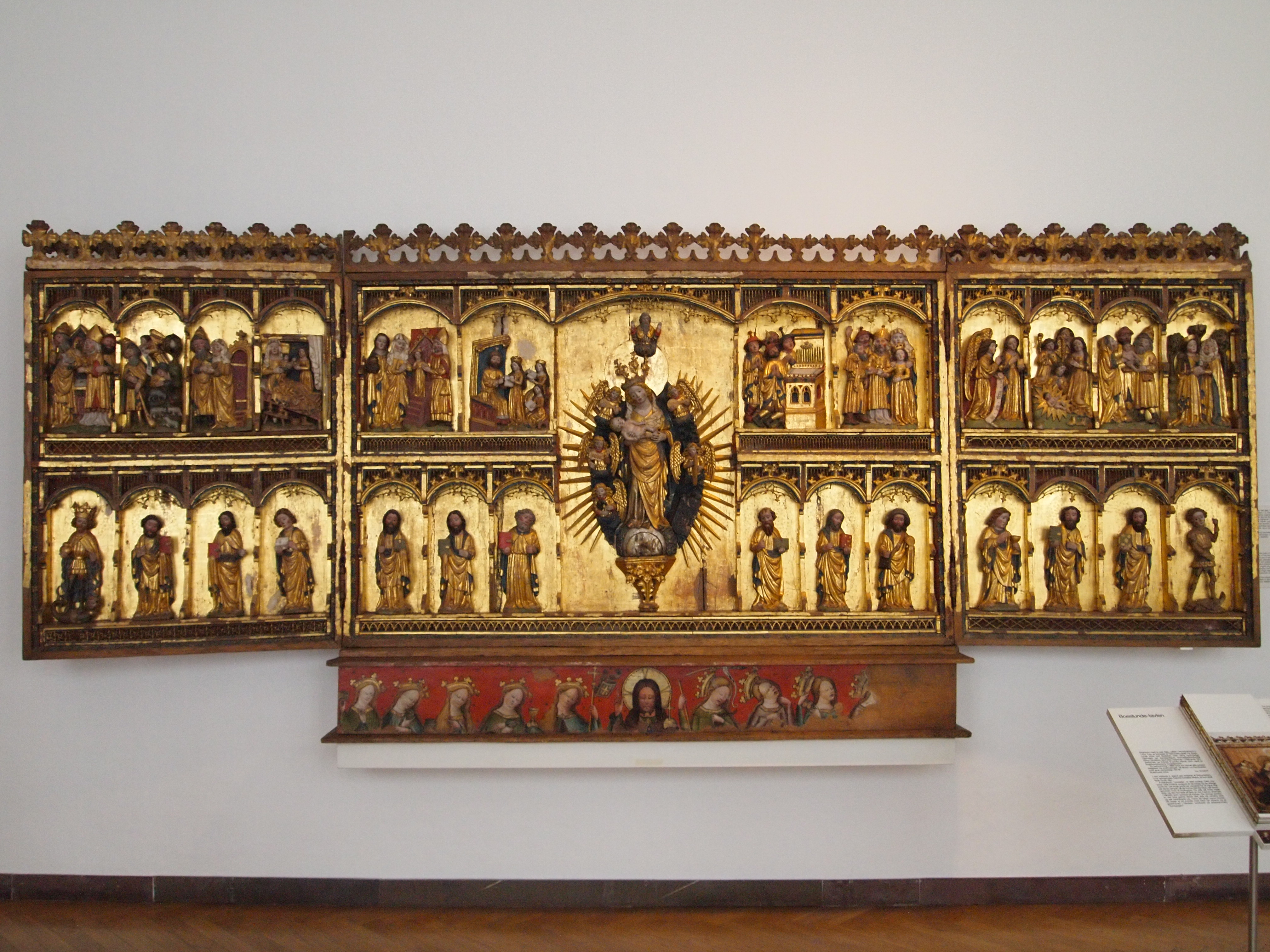 Pictures taken at the National Museet - The National Museum - Copenhagen Denmark during the Wikipedia Loves Nationalmuseet This image was provided to Wikimedia Commons by Nationalmuseet as part of an ongoing cooperative project. The artifact represented in the image is part of the collection of Nationalmuseet. English | македонски | +/− Attribution: Nationalmuseet